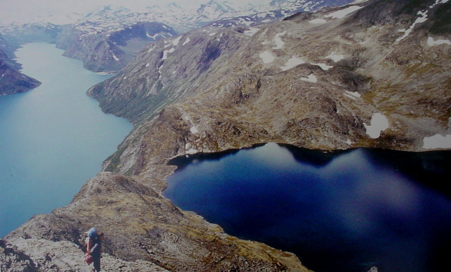 View from the Bessegen. Bessvatn (Lake), right, and Gjendevatn (Lake), left.